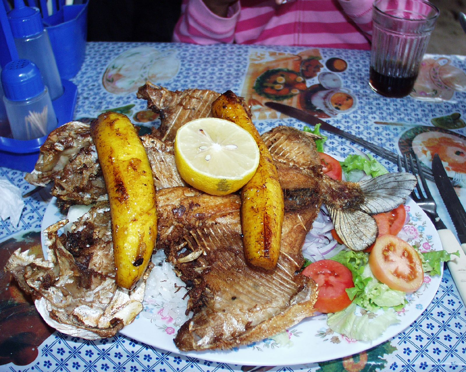 Photographer: Marc Alan Davis URL: Location: Villa Tunari, Bolivia Date: August 7th 2005 Description: Grilled pacu over rice with sides of lettuce, tomato, onions, and plantains, with a lemon garnish.